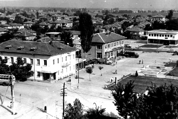 Town square in Sekirovo (early 1970s)